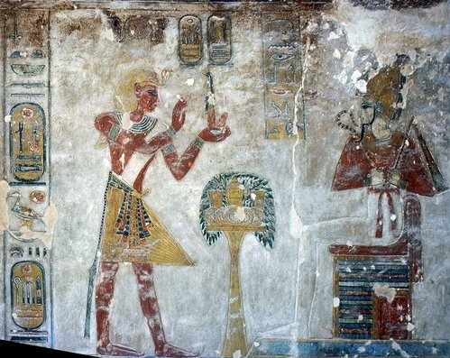 Rameses III offering Ma'at to Osiris. Scene from tomb of Ramses III. (KV11)